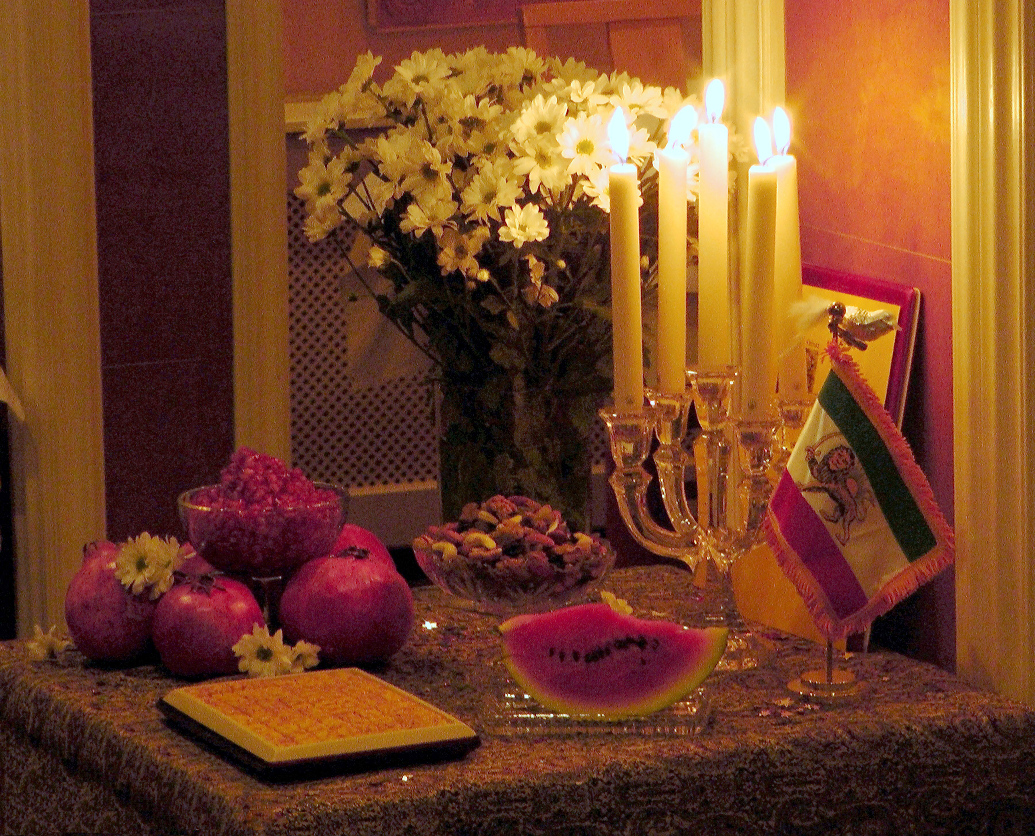 Yalda Night table in the celebration of Persians (Iranians) in Holland, Amsterdam, December, 2011. Photo by Pejman Akbarzadeh (Persian Dutch Network). YALDA is the Persian Winter Solstice Celebration which has been popular since ancient times.